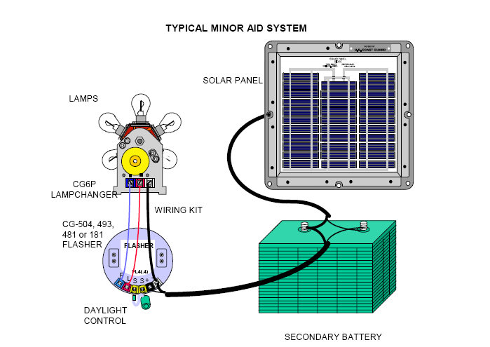 System diagram of a typical 12 volt lighthouse optical system, including bulb changer